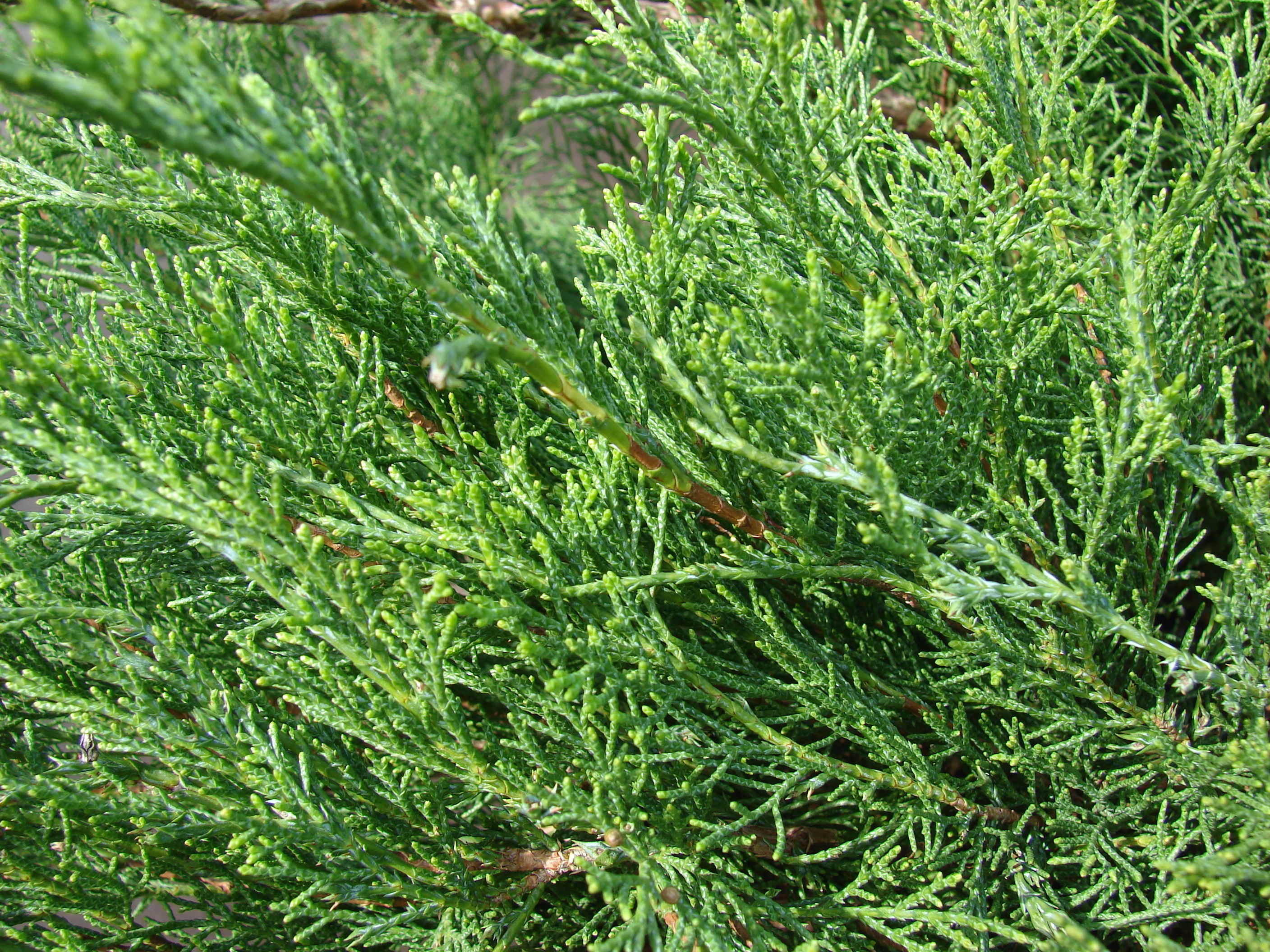 Juniperus sabina (Arcadia leaves). Location: Maui, Home Depot Nursery Kahului